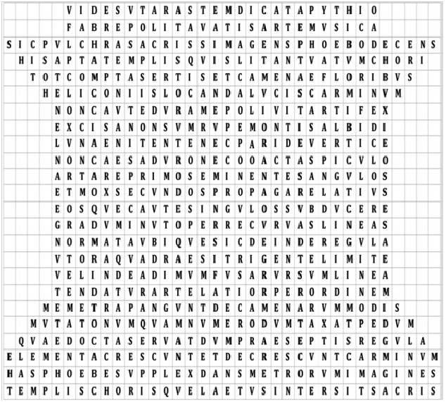 The altar poem (Carmen XXVI) by Publius Optatianus Porphyrius, c.325 CE